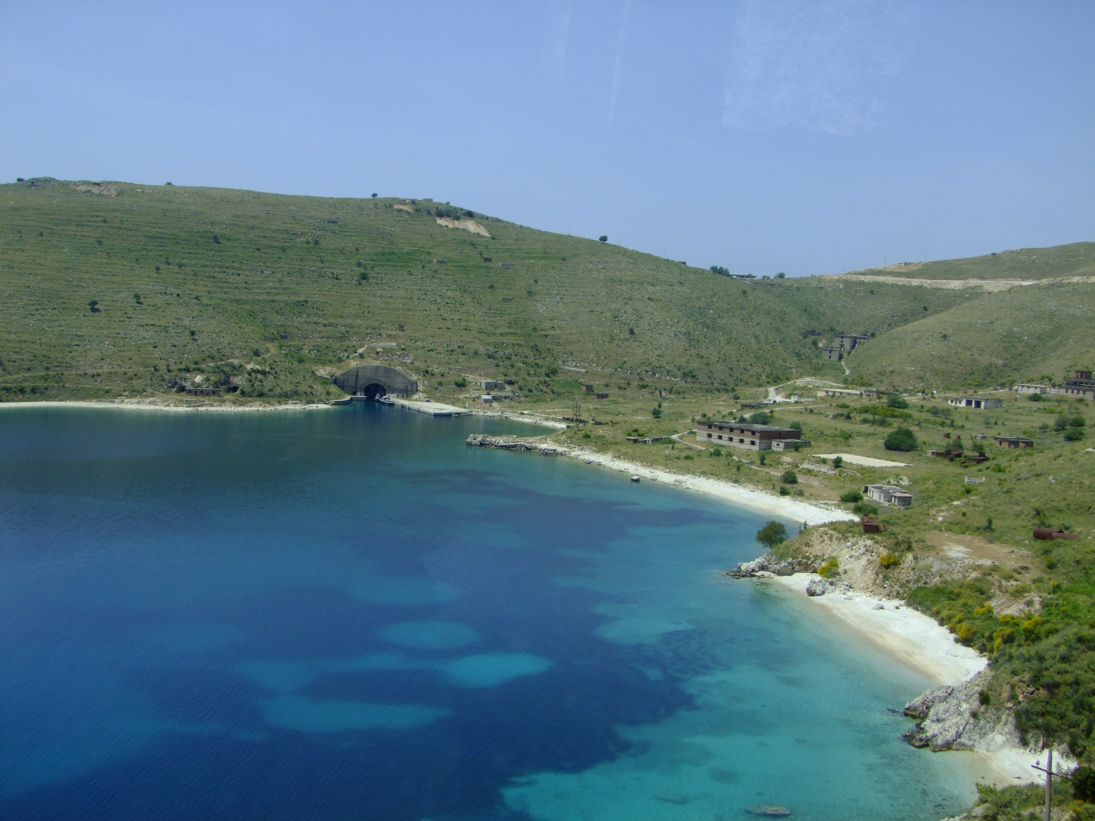 Himara/Albania Former Submarine Base